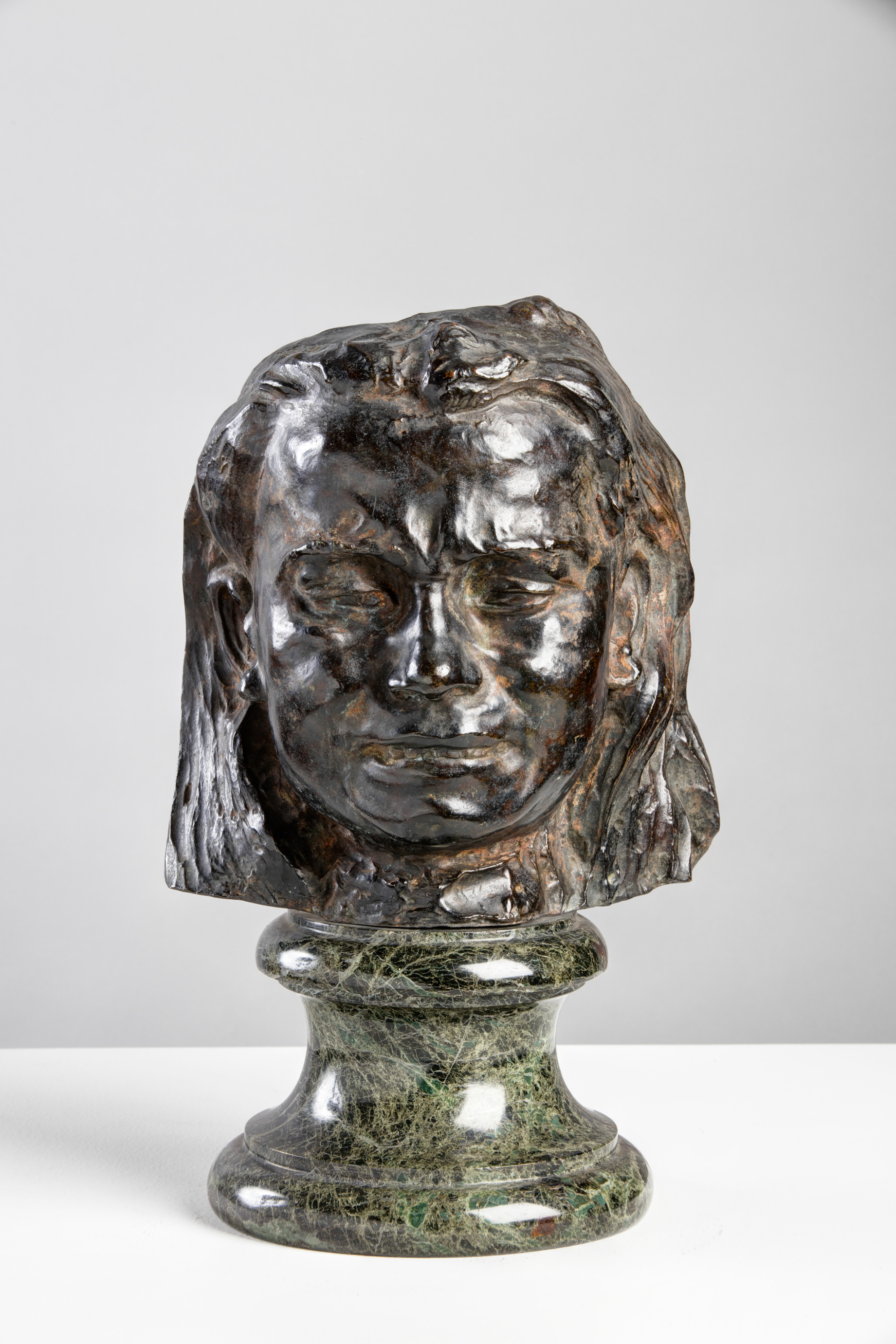 Mask of Criying Girl